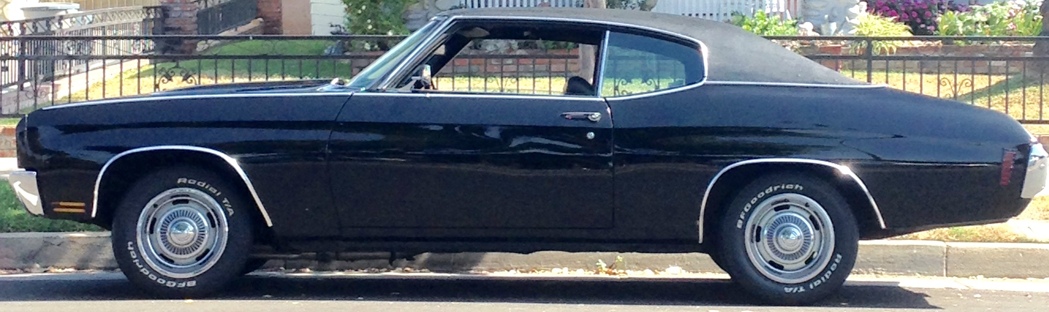 A 1970's classic American muscle car